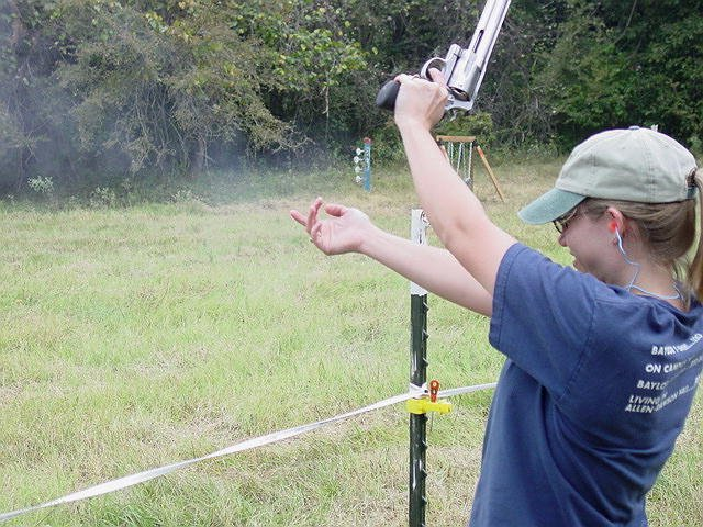 500 Smith in full recoil fired by a novice shooter who had trouble handling the recoil.